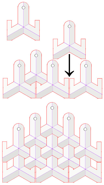 construction of Chinese Mountain Scale